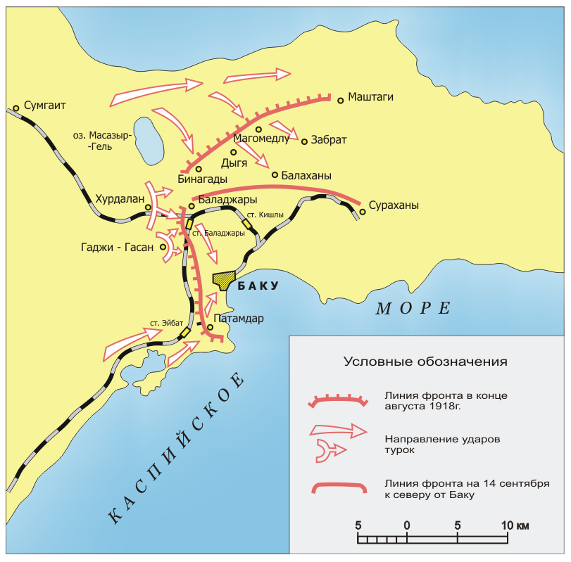 The Battle of Baku in June - September 1918 Based on original source: Kadishev A.B. "Intervention and Civil War in Transcaucasia" Moscow, 1960 page 144